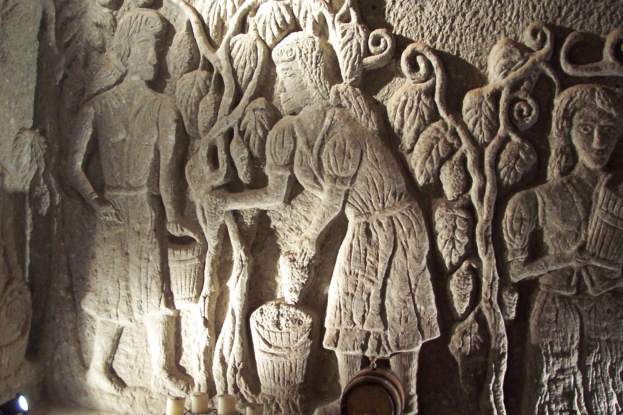 Carvment on the wall of a riolit-tufa wine cellar in Bükkzsérc, Hungary